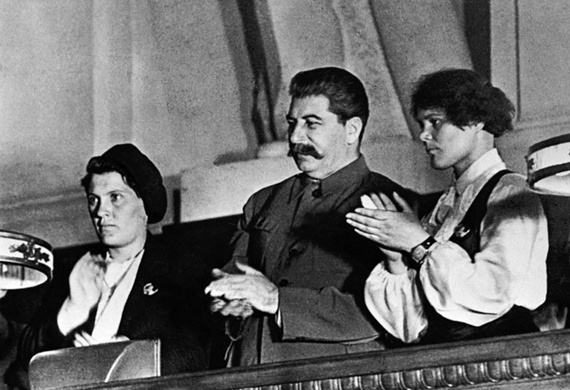 “Stalin and famous collective farmers Demchenko and Angelina at the X Congress of the Young Communist League”. General Secretary of the Al-Russian Communist Party (Bolsheviks) Joseph Stalin, center, founder of the first female tractor team Praskovya Angelina, left, and agricultural innovator beet-grower Maria Demchenko, right, in the presidium of the X Congress of the Young Communist League, 11-21 April 1936.